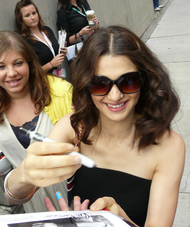 Super Sexy Rachel Weisz Signs Autographs outside of the Tiff '08 Press Conference for The Brothers Bloom Check out even more Great photos and videos at